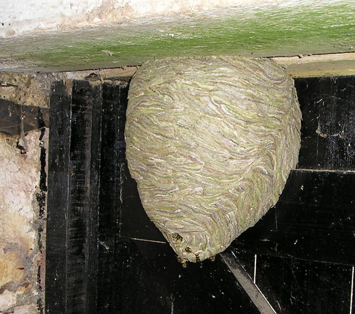 Large nest in outbuilding